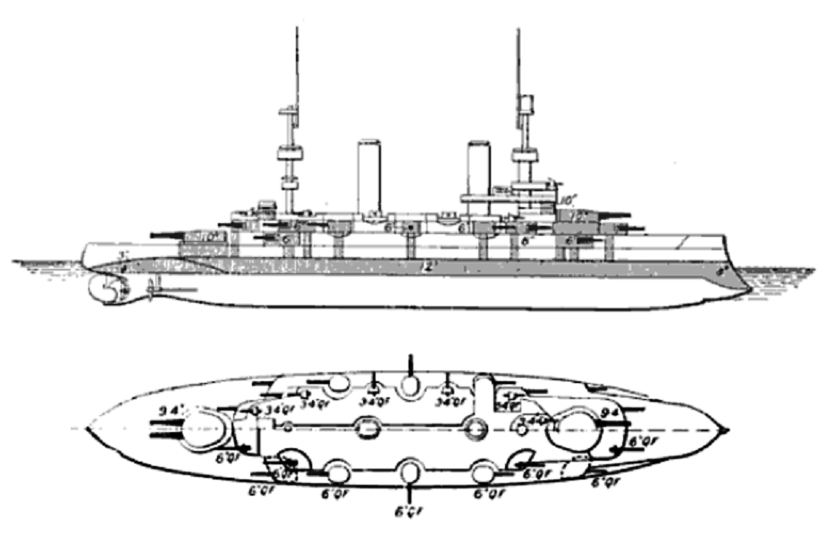 Diagrams depicting right elevation and plan of German battleship Kaiser Friedrich III class